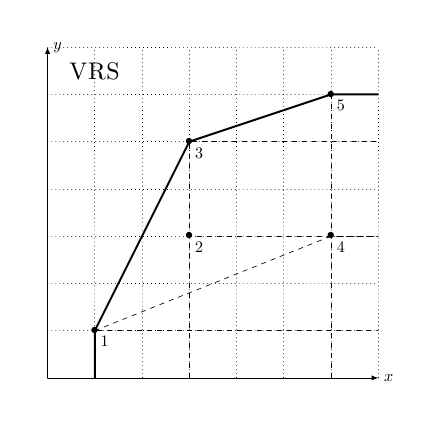 DEA frontier - VRS hypothesis